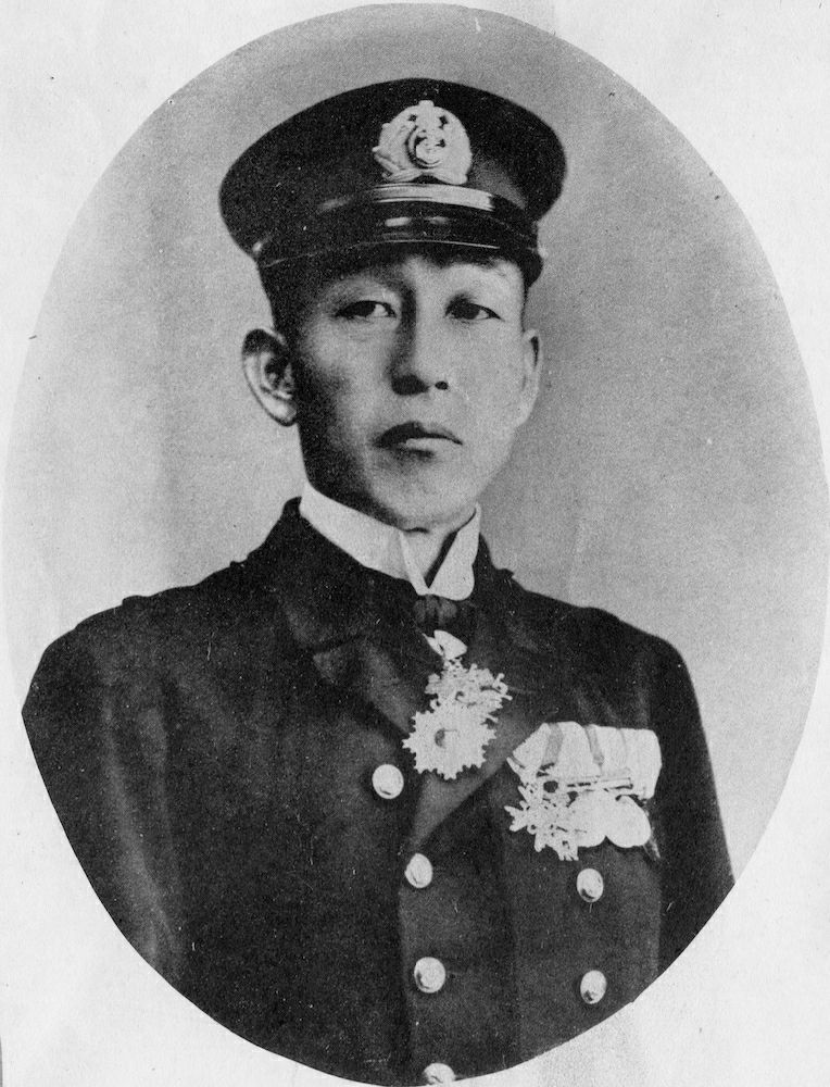 Vice Admiral Yurikazu Edahara